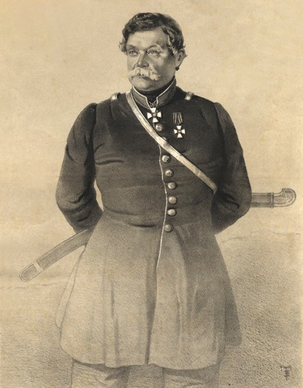 Portrait of Nikolay Muravyov-Karskiy (1796-1866), Russian General